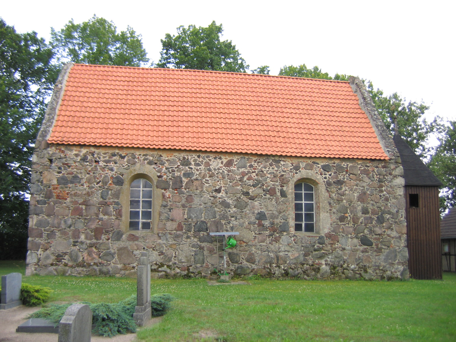 Village church of Kossin, Gem. Niederer Fläming, Lkr. Teltow-Fläming, Brandenburg, Germany, view from north